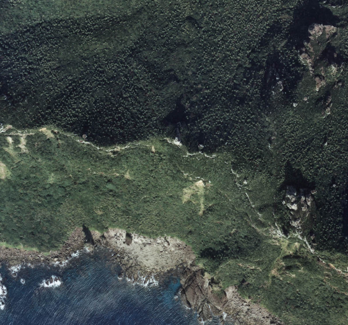 Aerial photo of Mount Byōbu, Senkaku Islands